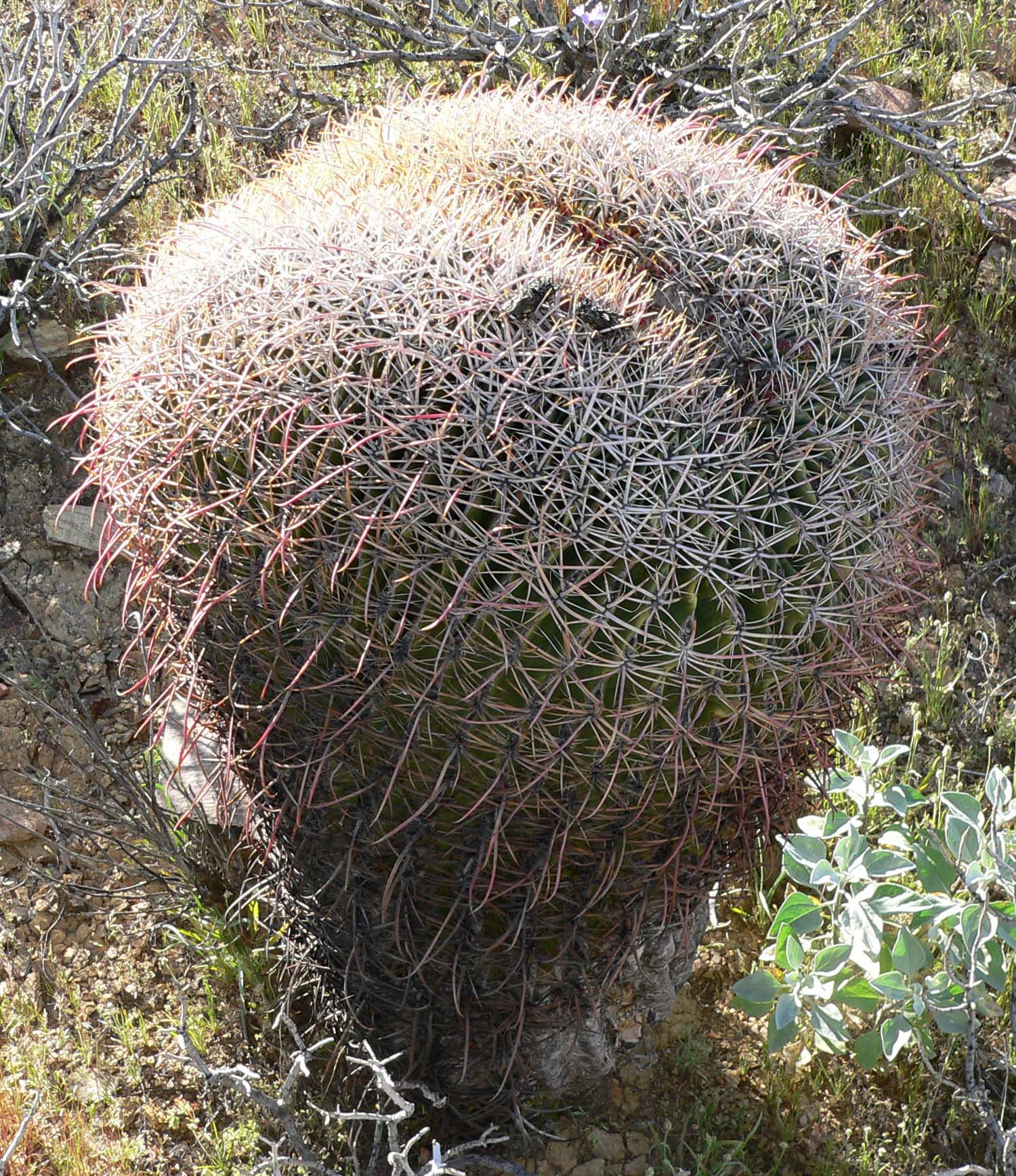 Photo of a deformed Ferocactus cylindraceus in Palm Canyon, California